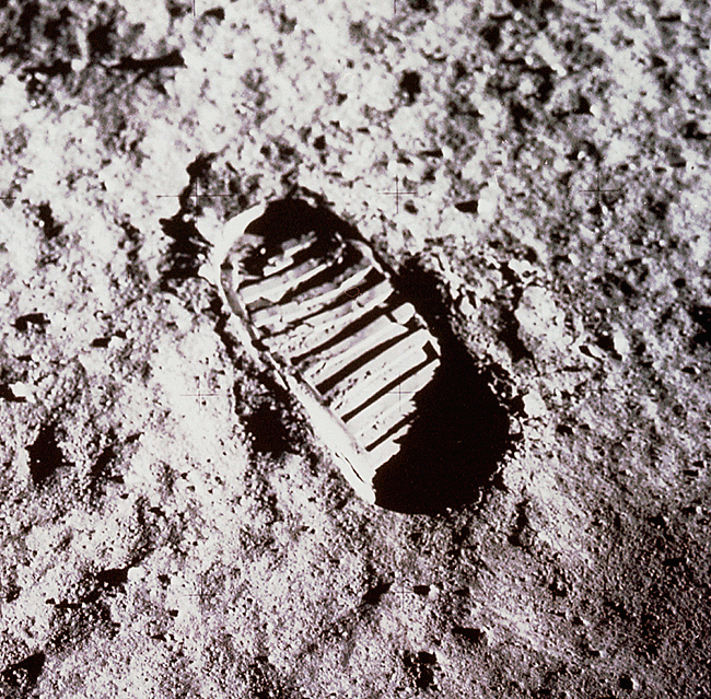 Apollo 11 astronaut Edwin Aldrin photographed this footprint in the lunar soil with the 70mm lunar surface camera as part of an experiment to study the nature of lunar dust and the effects of pressure on the surface. The dust was found to compact easily under the weight of the astronauts leaving a shallow but clear impression of the boots, characteristic of a very fine, dry material. The footprint image has also become one of the enduring symbols of the first visit to the Moon.